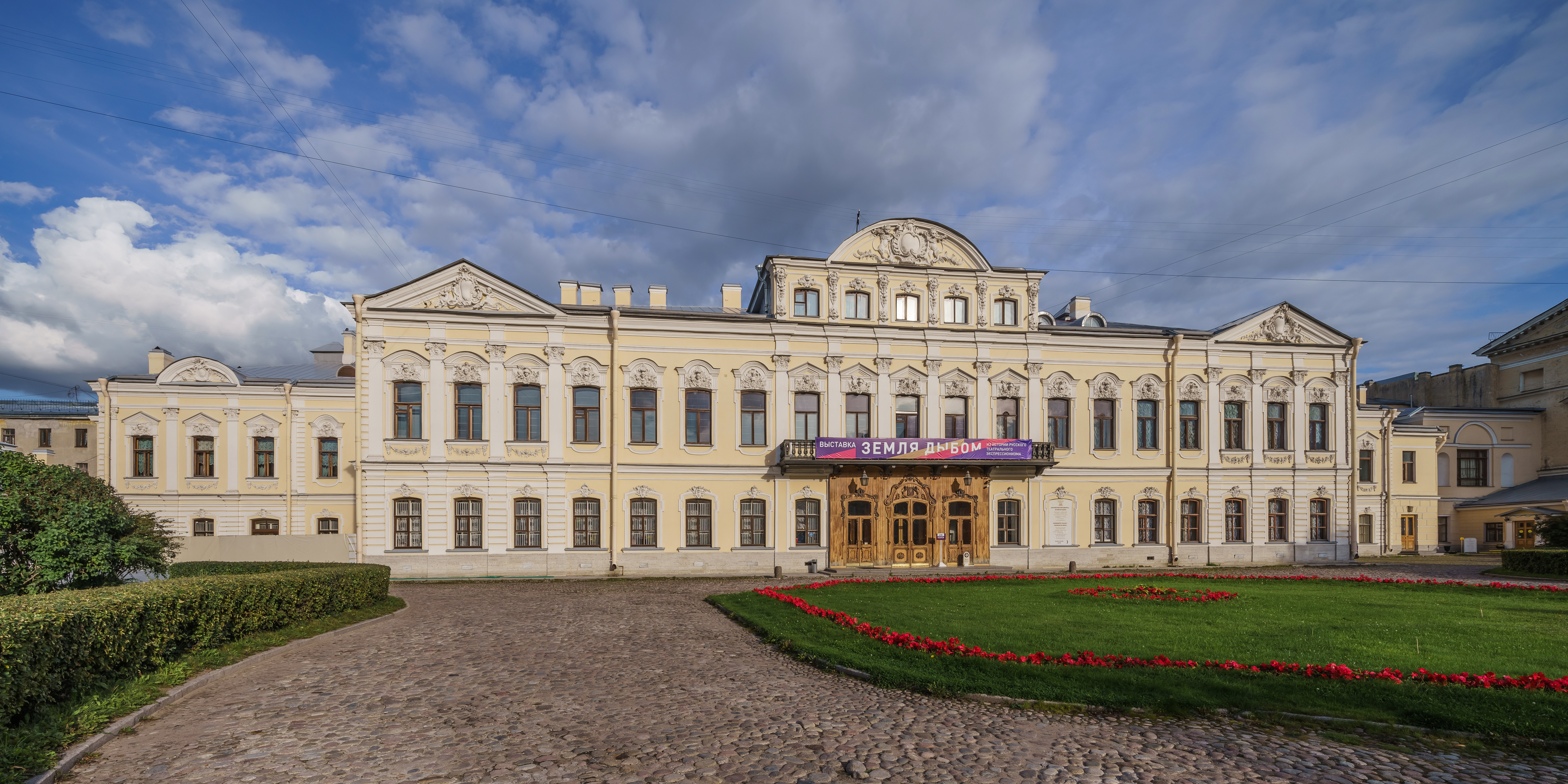 Fountain House (Sheremetev Palace at Fontanka) in Saint Petersburg, Russia